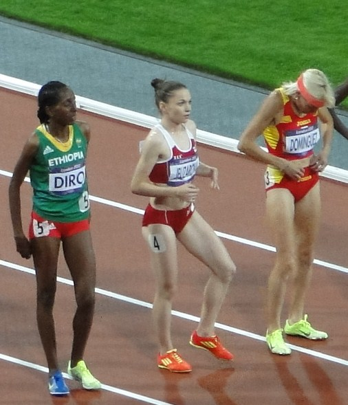 Lining up for the start of the women's 3000m steeplechase at the 2012 London Olympics, Etenesh Diro, Polina Jelizarova, Marta Dominguez